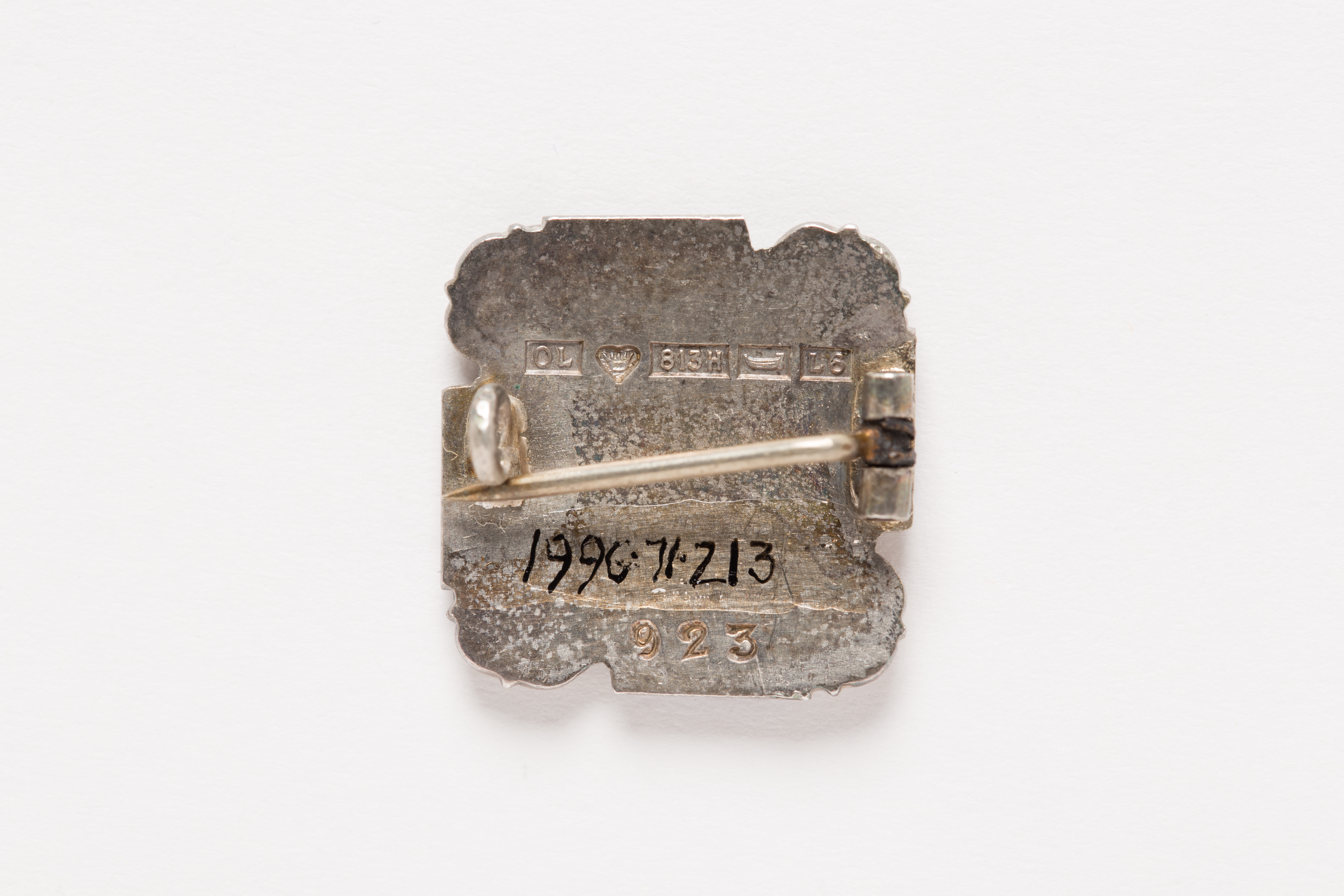 Badge, Lotta-Svard square form; blue swastika at centre with legend; flowers in each corner; pin fastening reverse- hallmarked